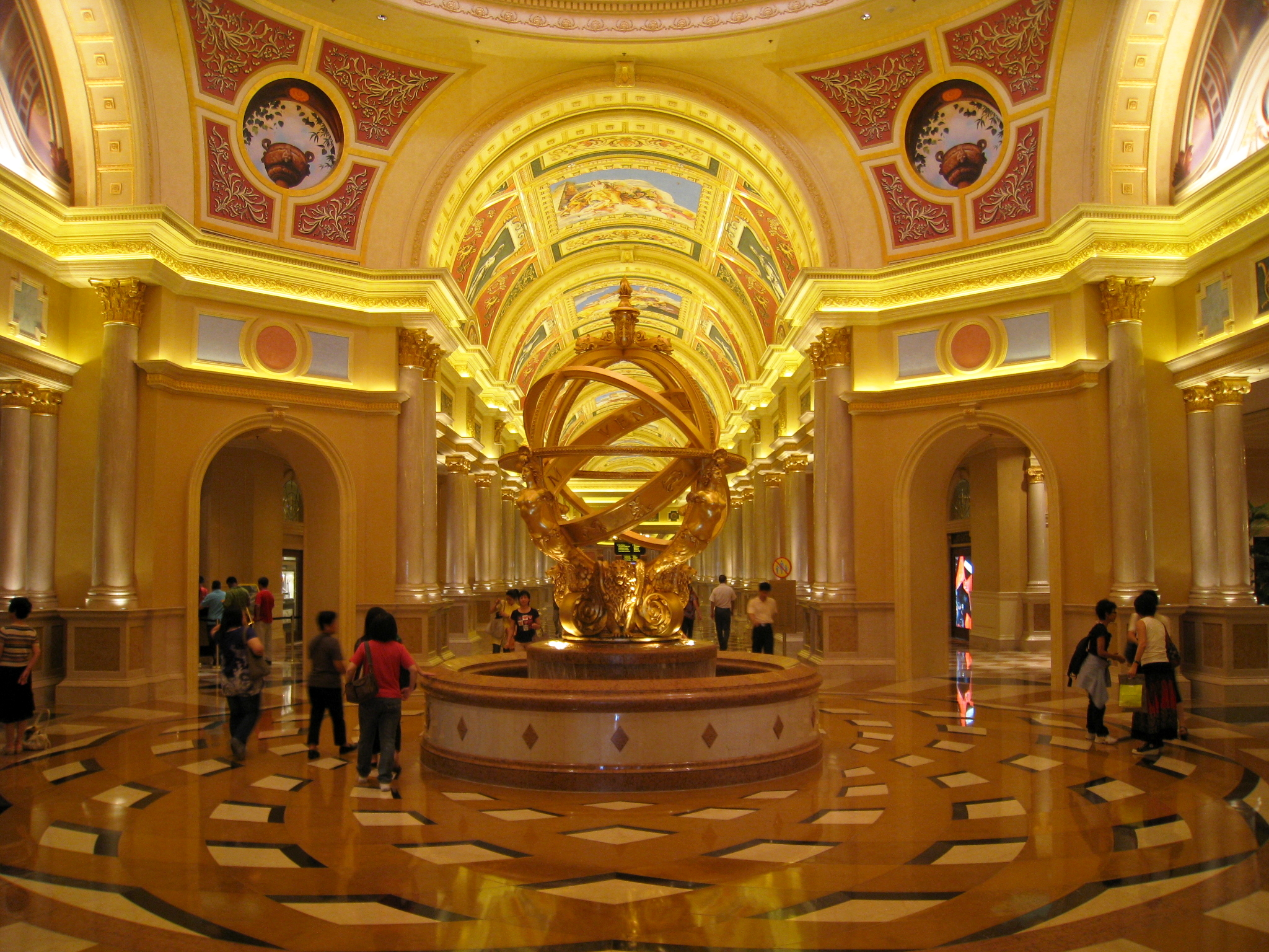 The Venetian Macao Main Hotel Enterance 澳門威尼斯人渡假村正門入口